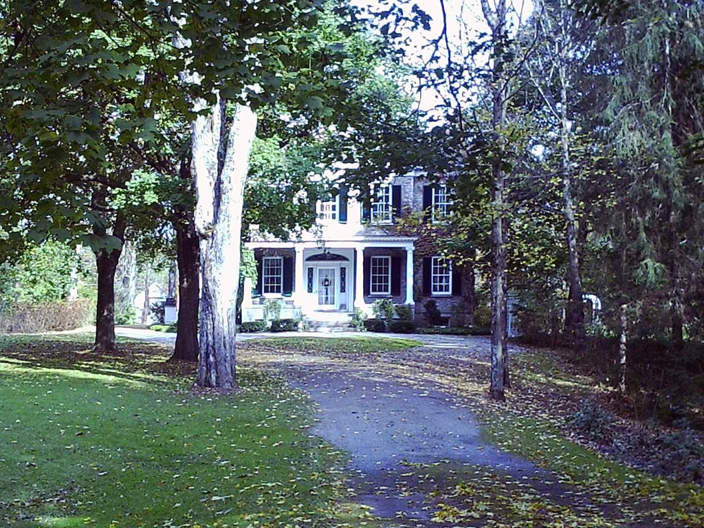 A large front view of Mappa Hall in Barneveld, NY